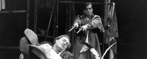 D.C. Douglas in "The Beethovens," Los Angeles, 1993.